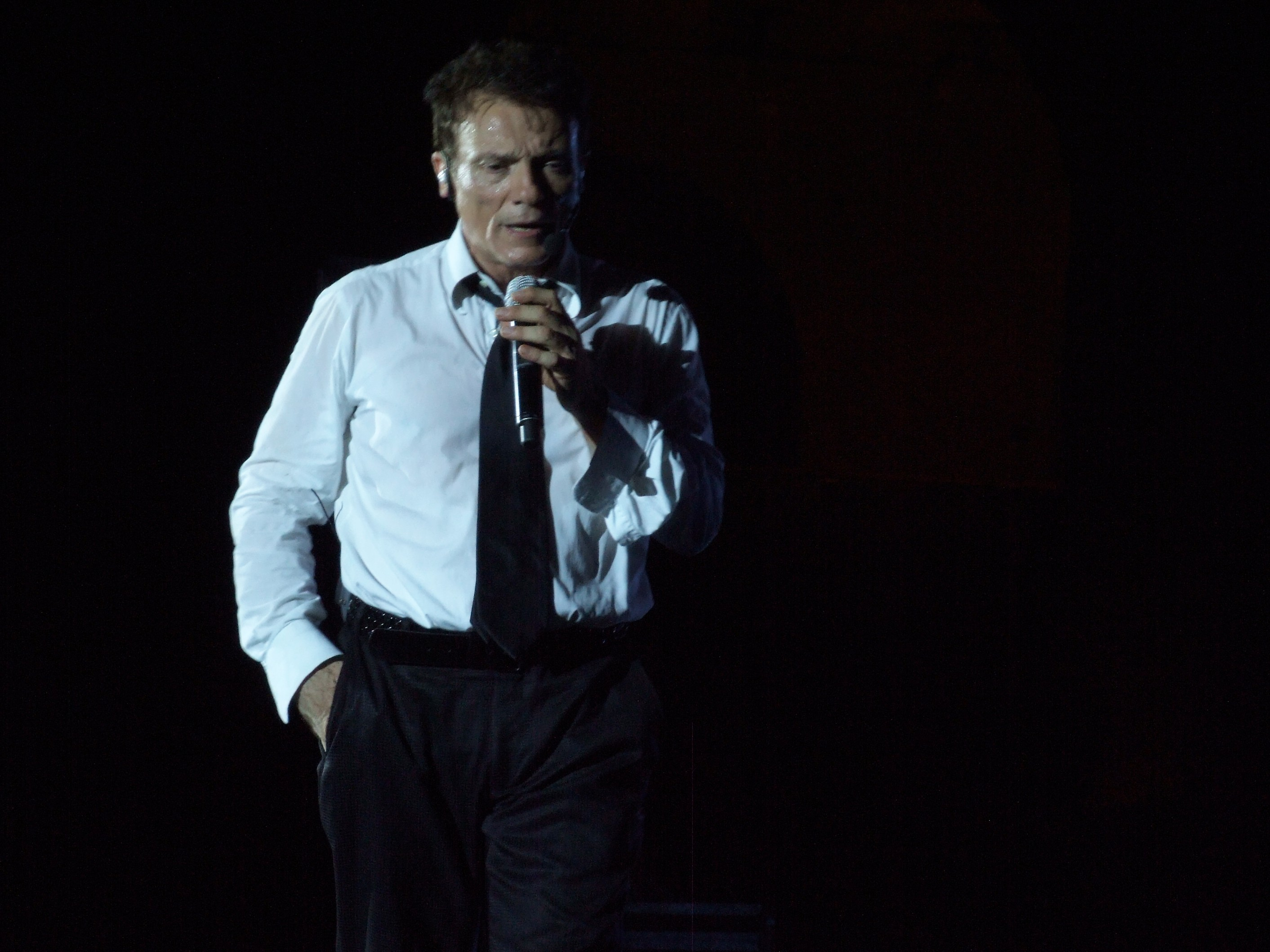 Massimo Ranieri at a concert in 2009 in Taormina, Sicilia, Italy.